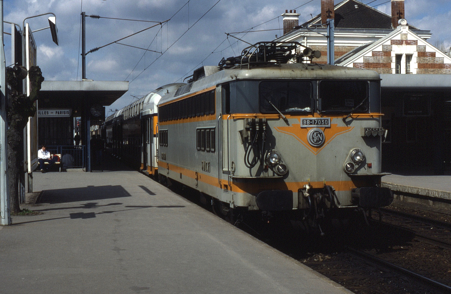 BB 17030 on a double deck Paris suburban service seen at Cormeilles-en-Parisis on 8 April 1987.